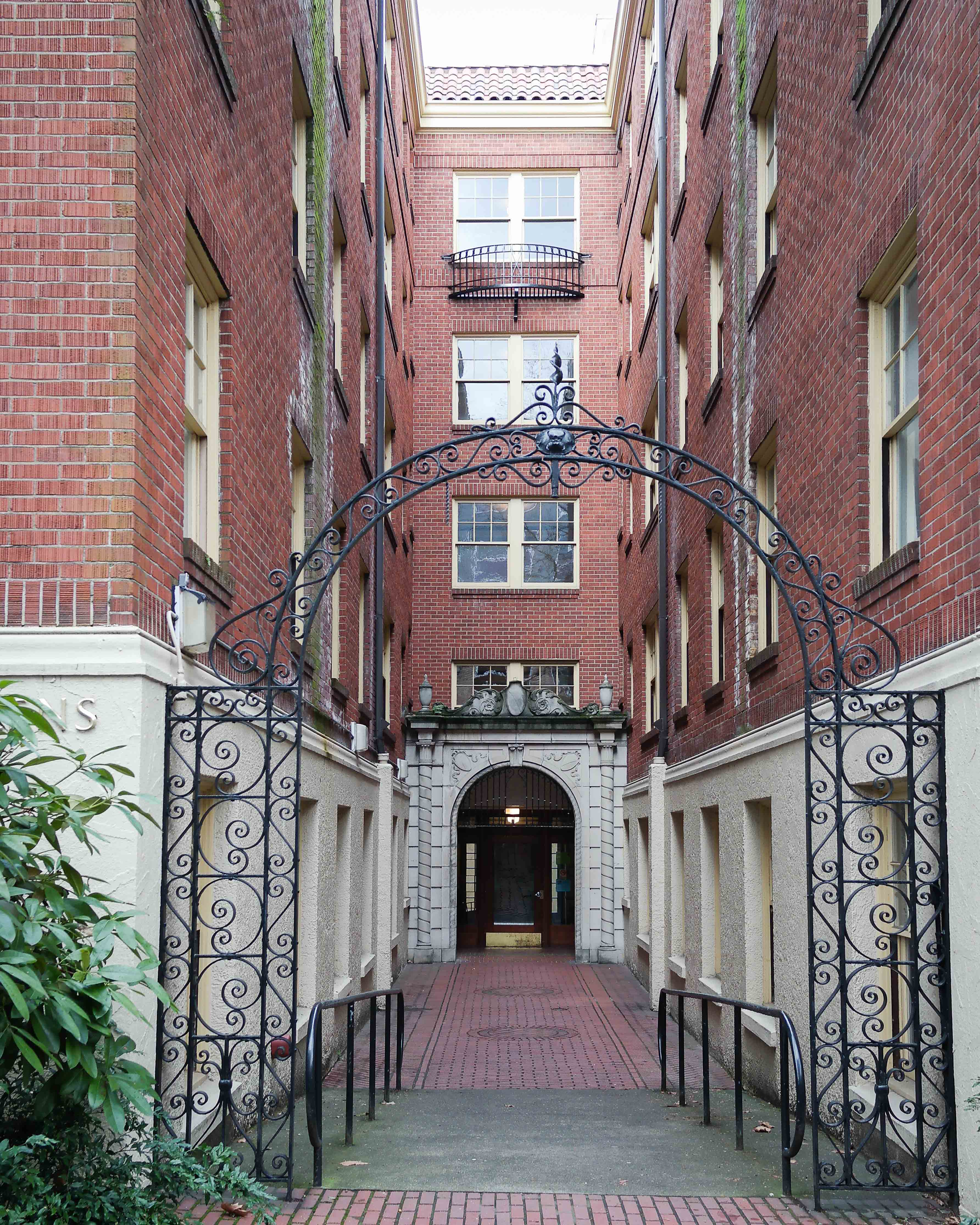 Saint Helens Courtyard at Portland State University